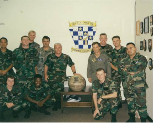 Al Yamamah Ball with the 623rd unit members, Lt Col Eide, commander. Kadena AB, Okinawa, Japan, 1993